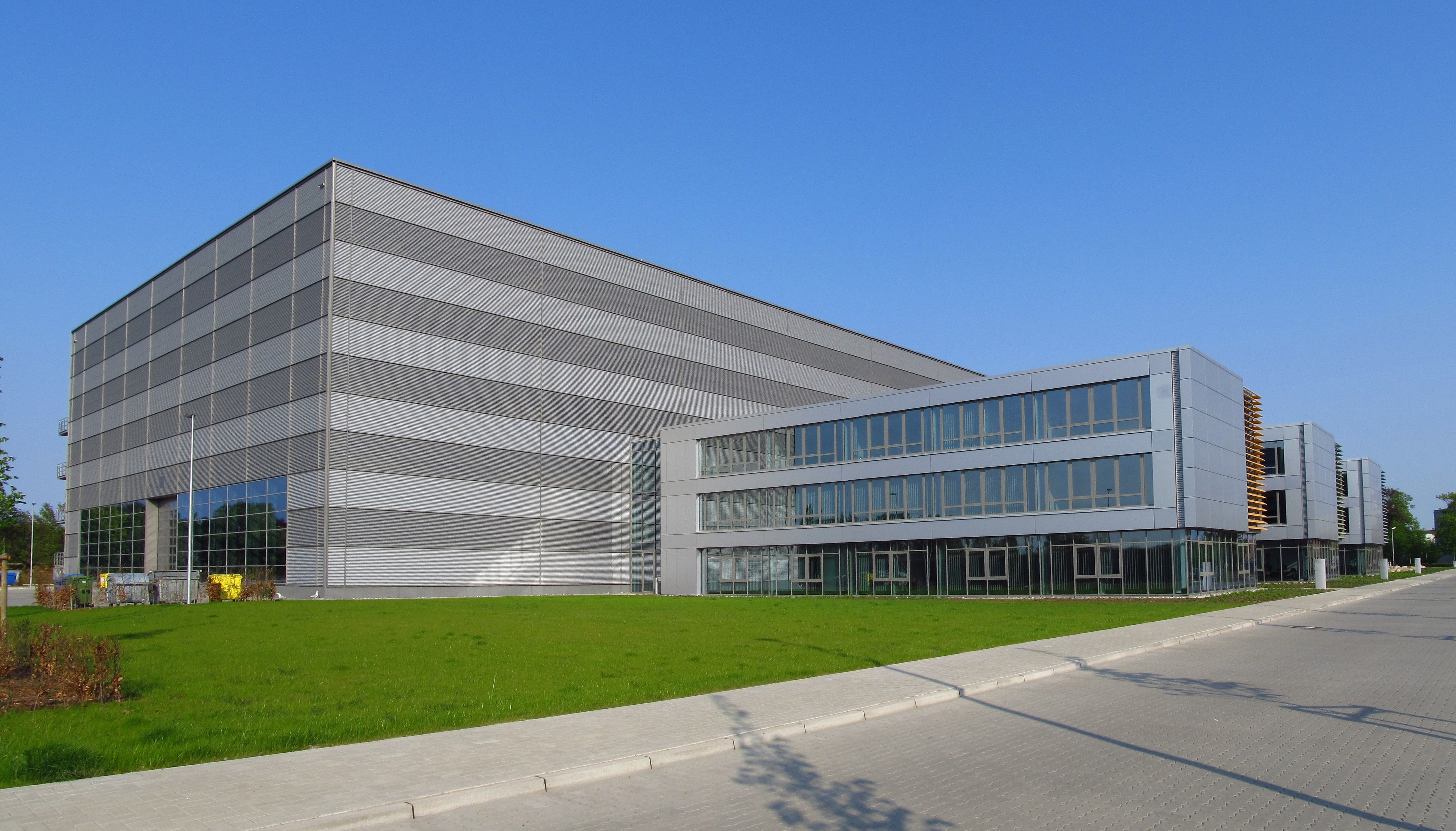 Building of the so-called CFK Valley Nord at the industrial park in Ottenbeck, Stade.